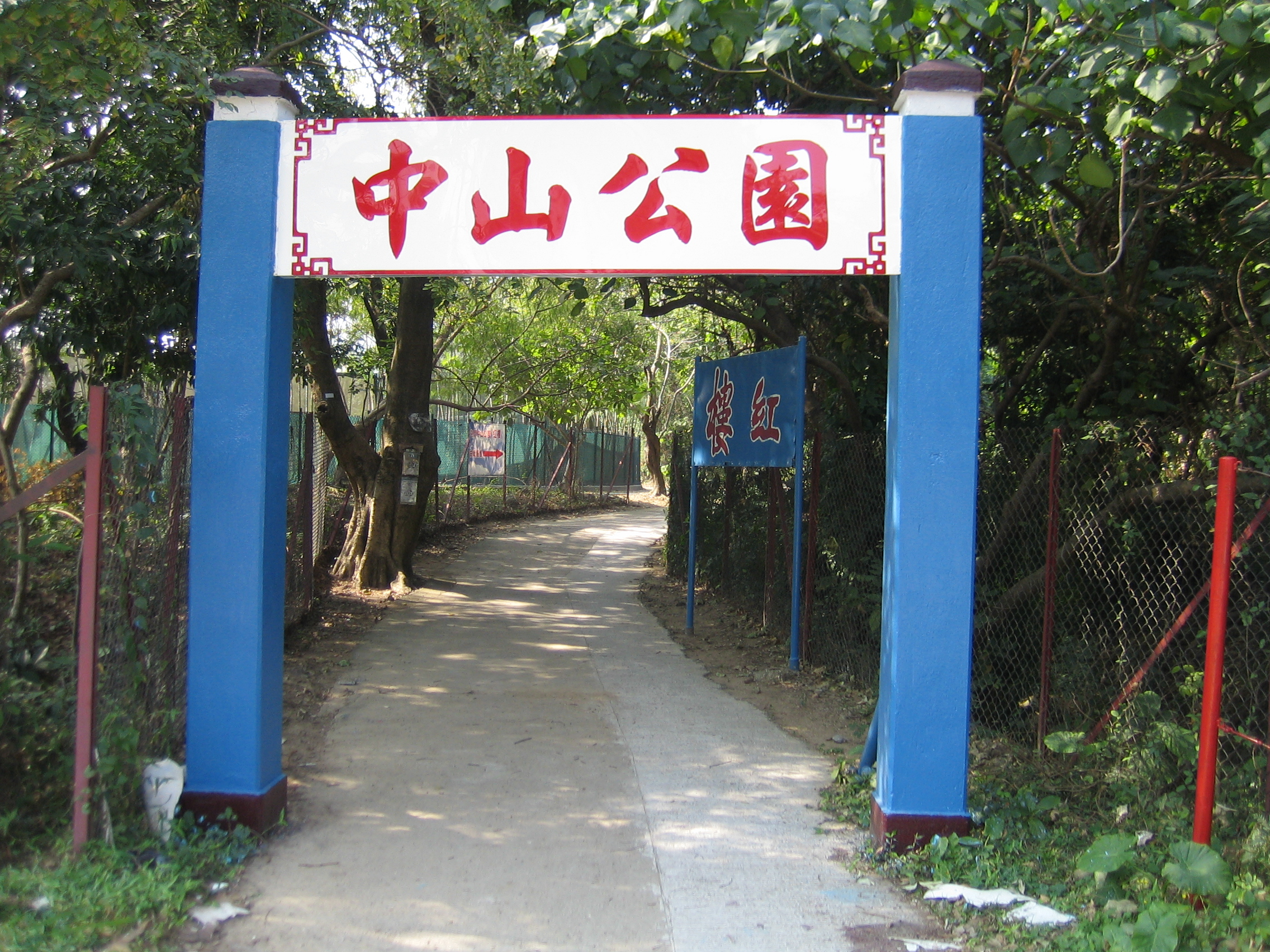 Hung Lau, Tuen Mun, Hong Kong. If you have any questions about the licensing (like cc-by-sa, GFDL), or you want to republish the image without using the licensing shown as below, you are welcome to leave a message on the User Talk Page of my Chinese Wikipedia account.